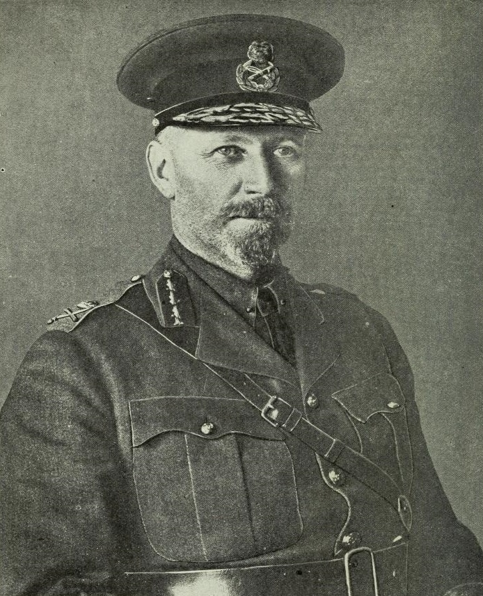 Picture of Jan Christiaan Smuts